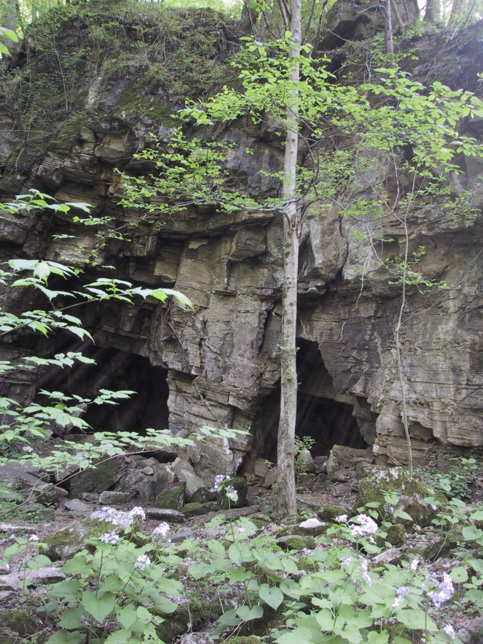 Roman quarry in the Bistrica George, Pohorje